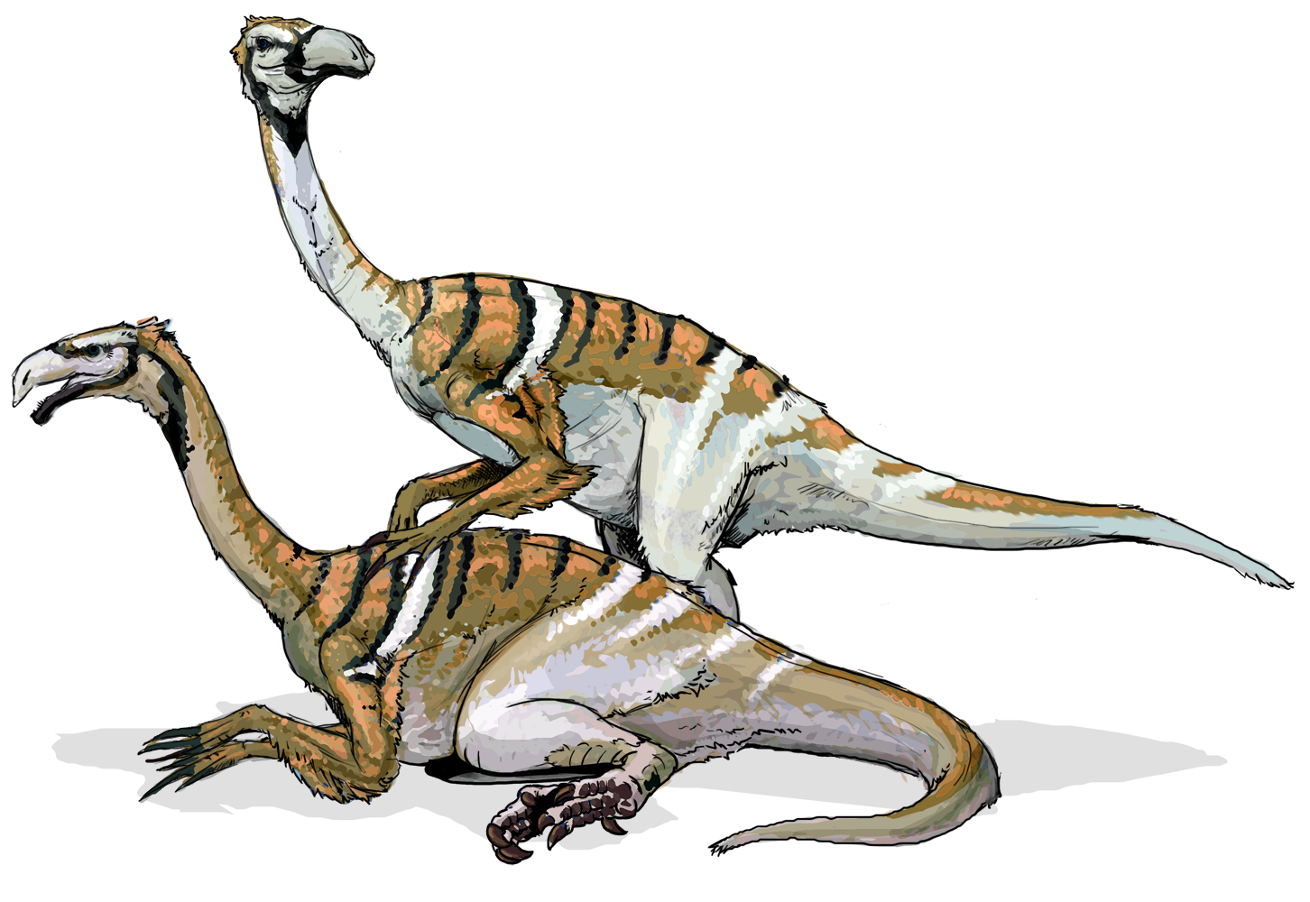 Nanshiungosaurus is a genus of coelurosaurian dinosaur, and like other members of that infraorder, the animals of this genus probably possessed large claws, but since nothing of the skull, tail, ribs or limbs have been found, analysis has focused solely on the vertebrae and pelvis.